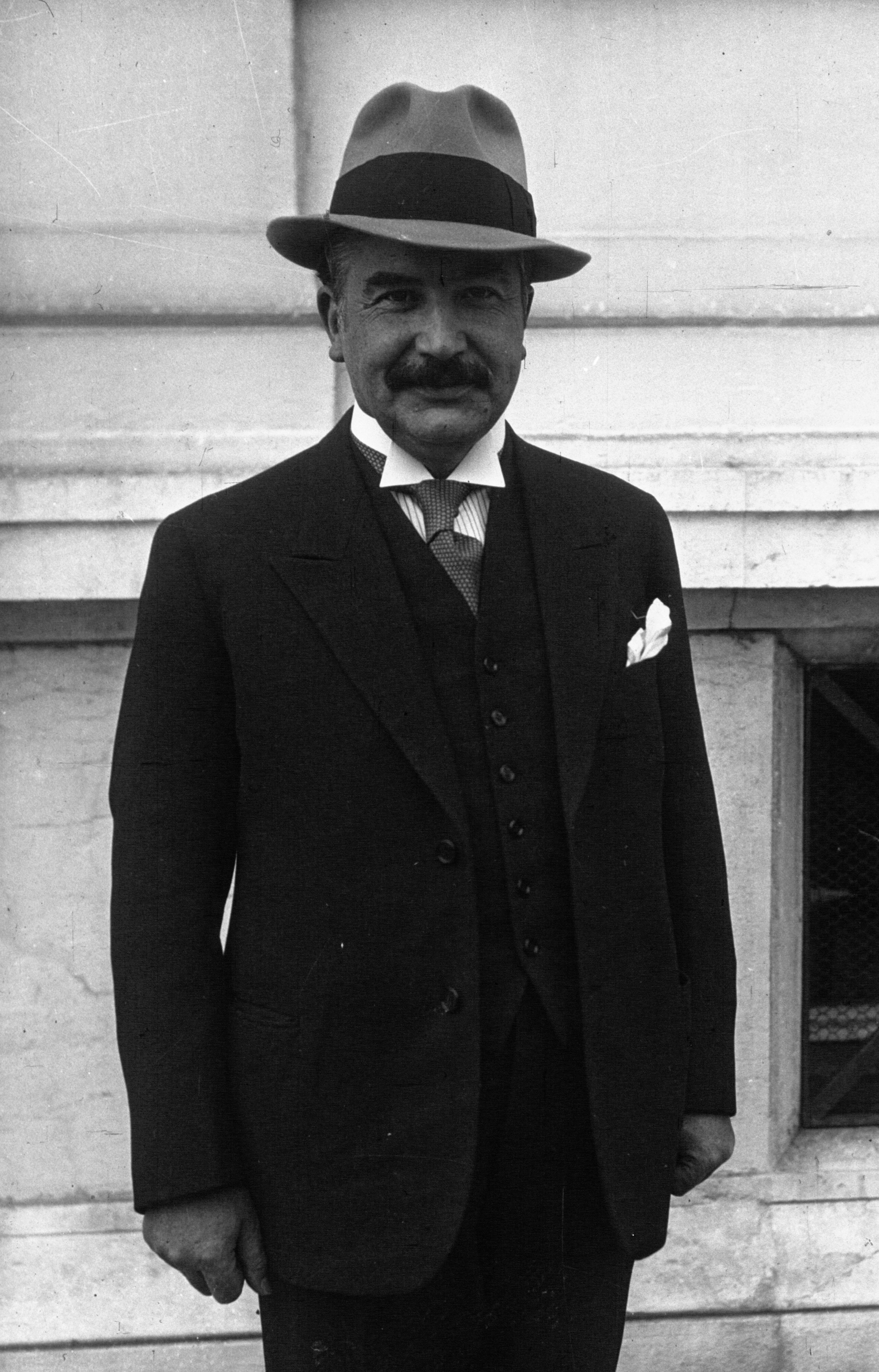 Luxembourgian Prime Minister Joseph Bech (1887-1975).